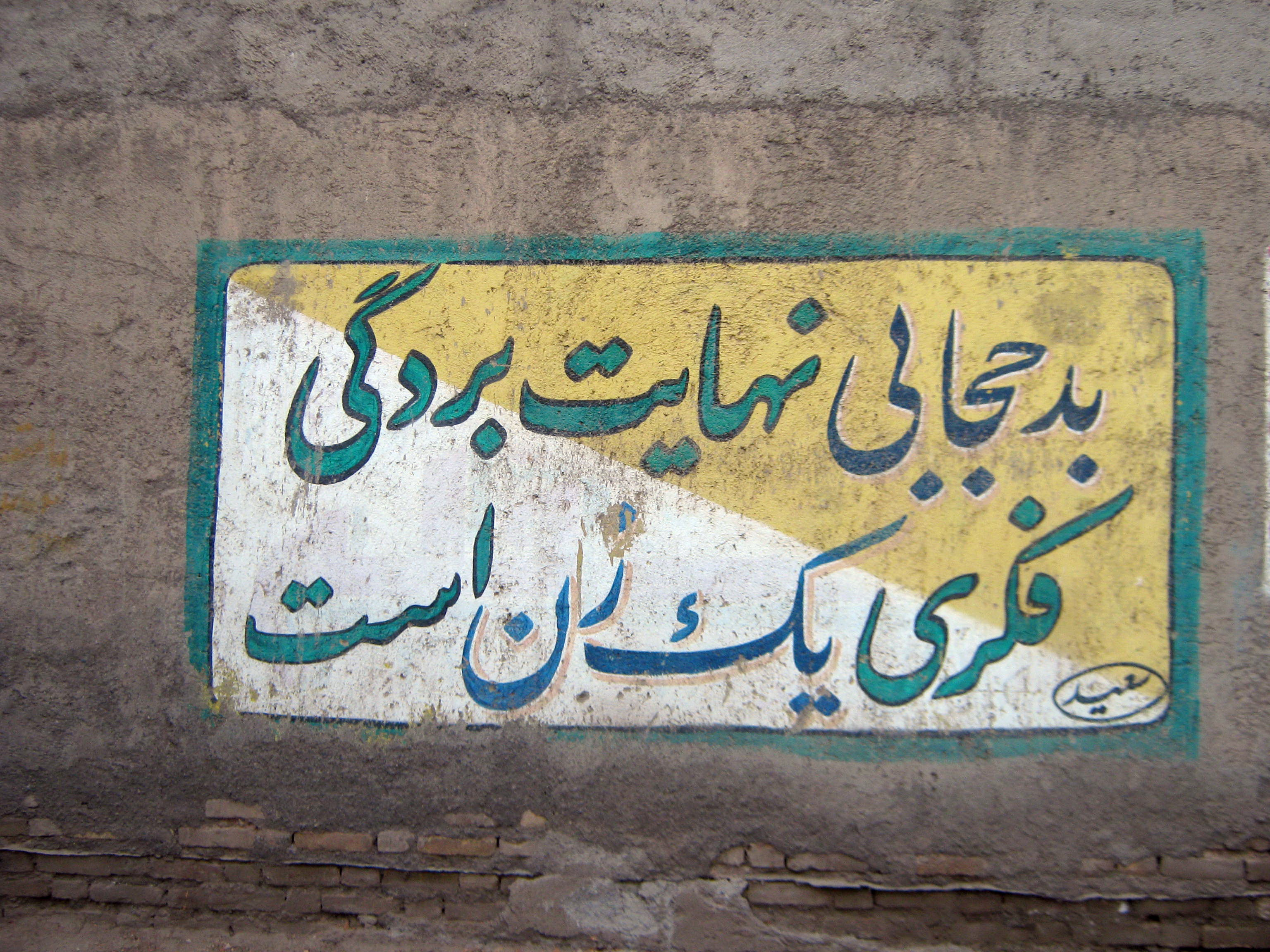 Bad Hijab is extremity of mental slavery for a woman - wallpainting - Attar st - Nishapur